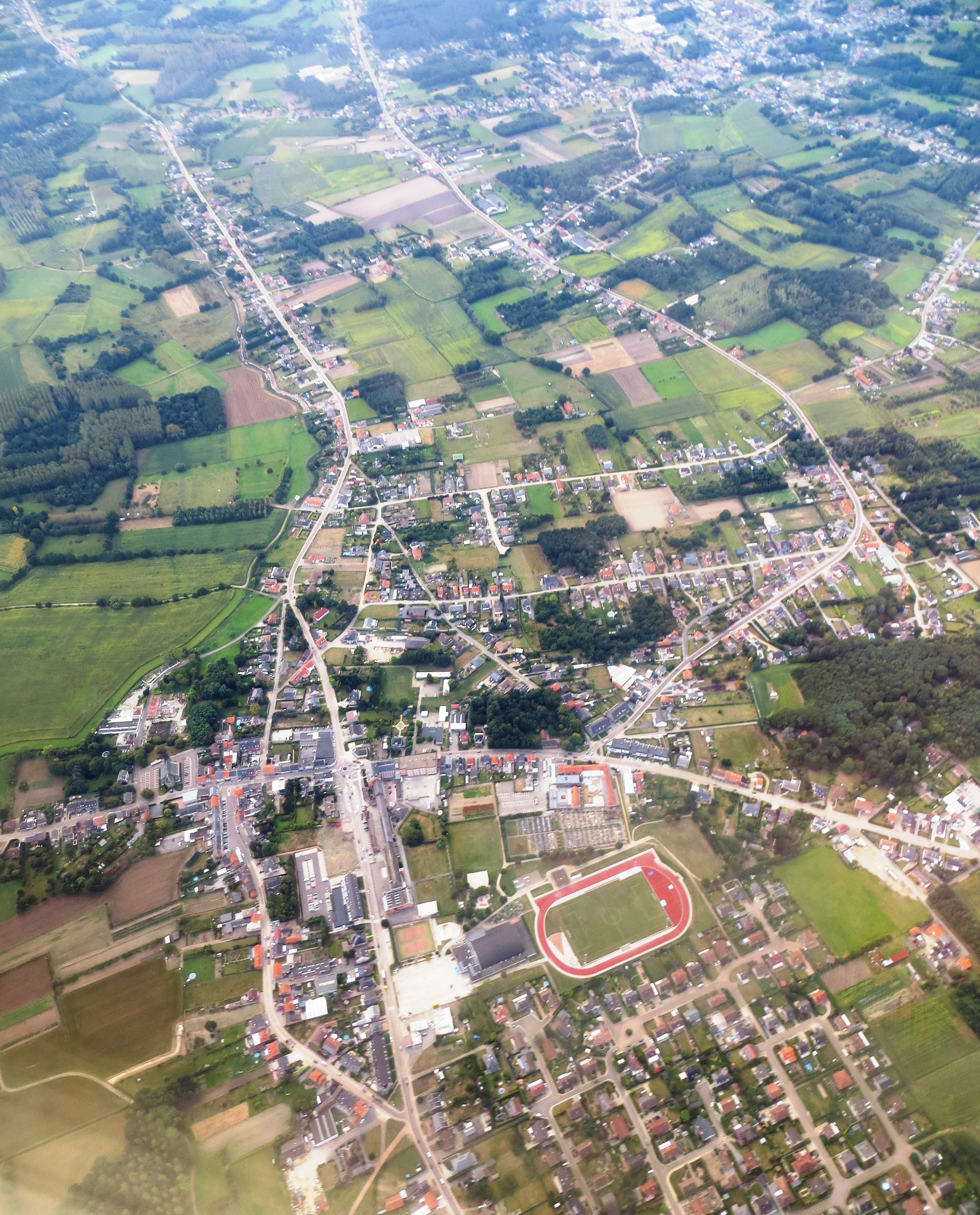 Aerial view from the east towards west. from the northern part of Belgium (Leuven-Hageland region).